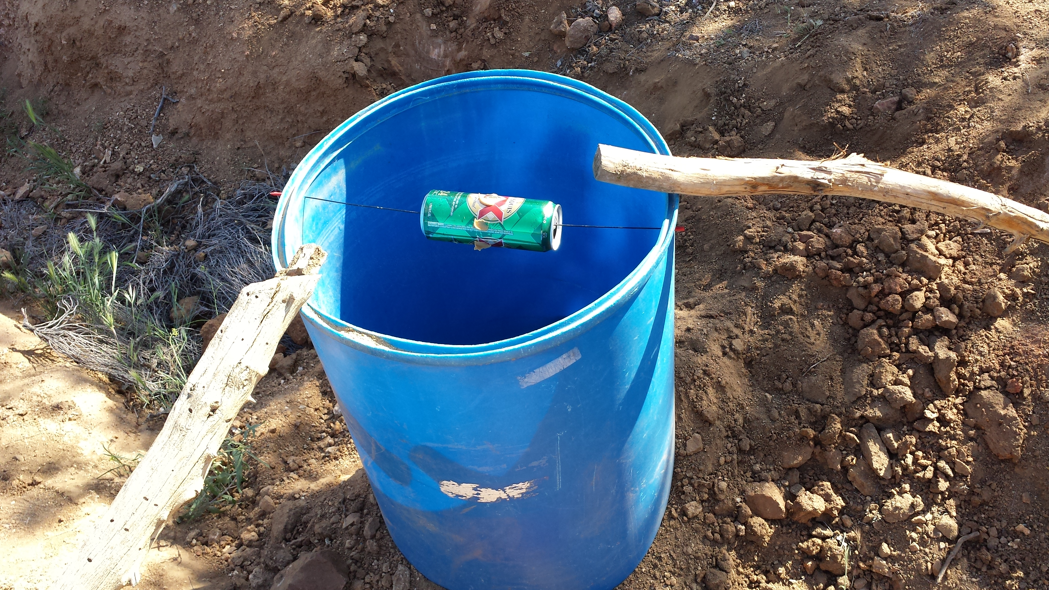 A bucket trap for catching rats